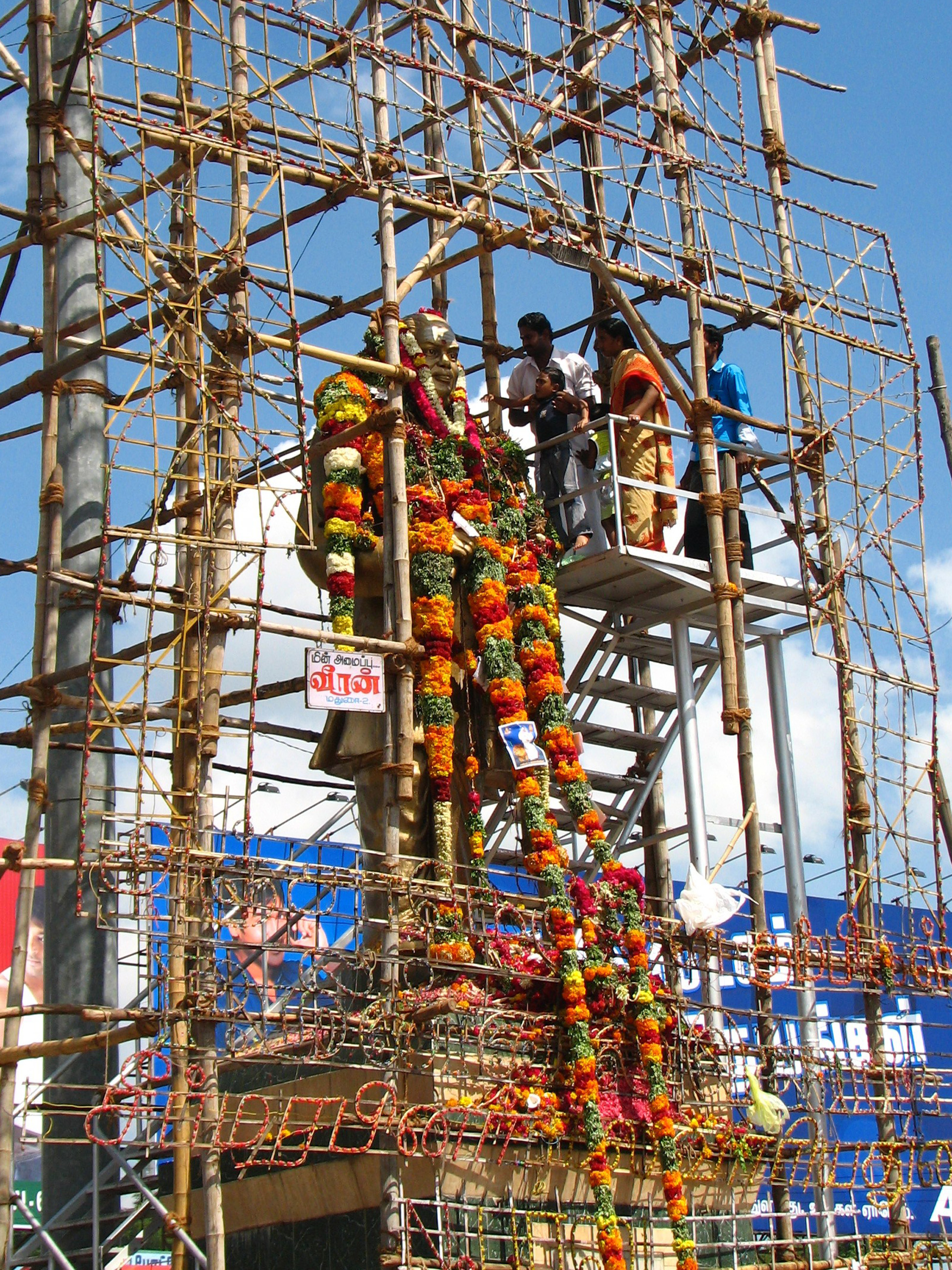 So totally at random, I got suggested to check out festivities going on that day in Madurai and found myself in the middle of a boisterous and excited, but very peaceful political rally and celebration. Oct 30 marked Thevar jayanthi, a celebration of the birthday of U. Muthuramalingam Thevar, a renowned and revered political leader and activist of the '30s to '50s. Members of various groups of the All-India Forward Bloc and several current and senior political leaders of various parties marched, rallied and gathered to pay homage to him, focused on his statue. Groups climbed the stairs to lay large flower garlands around the statue's neck amidst great cheering and revelry. If you want to see India at its most celebratory (and often volatile, although celebrations this day were mostly peaceful), watching its political rallies are the way to do it.